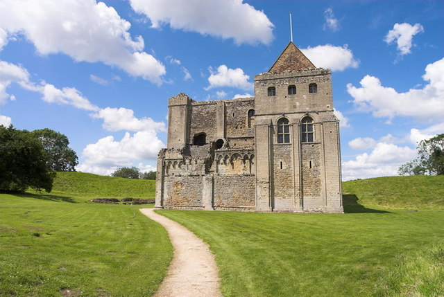 Castle Rising Castle